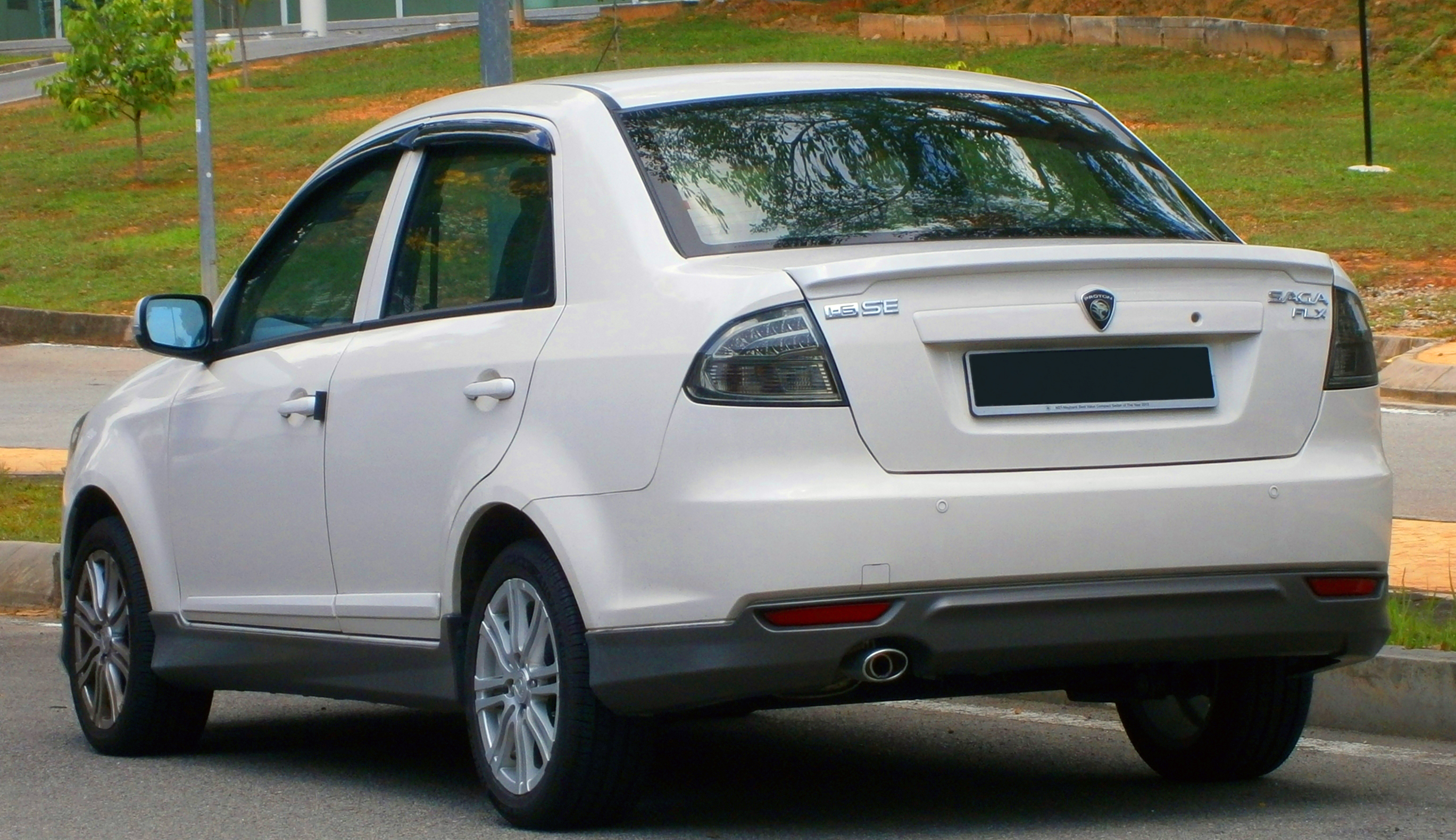 2013 Proton Saga FLX SE in Cyberjaya, Malaysia. Colour : Solid White Designed & Assembled in Malaysia